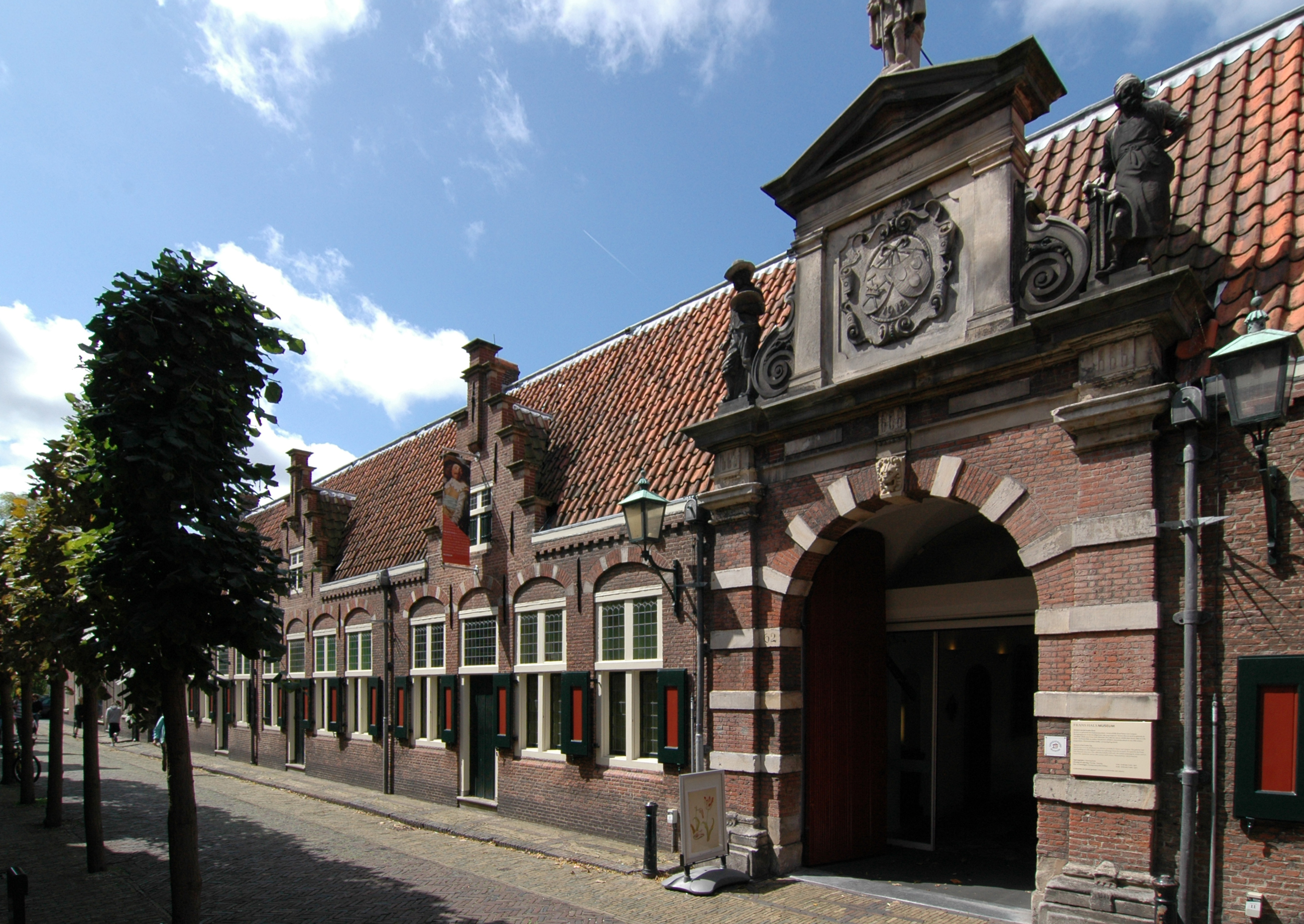 The entrance of the Oudemannenhuis in Haarlem. In 1609 the first elderly people resided here after they took off an oath to the regents. Now the Oudemannenhuis is the location of the Frans Hals Museum.